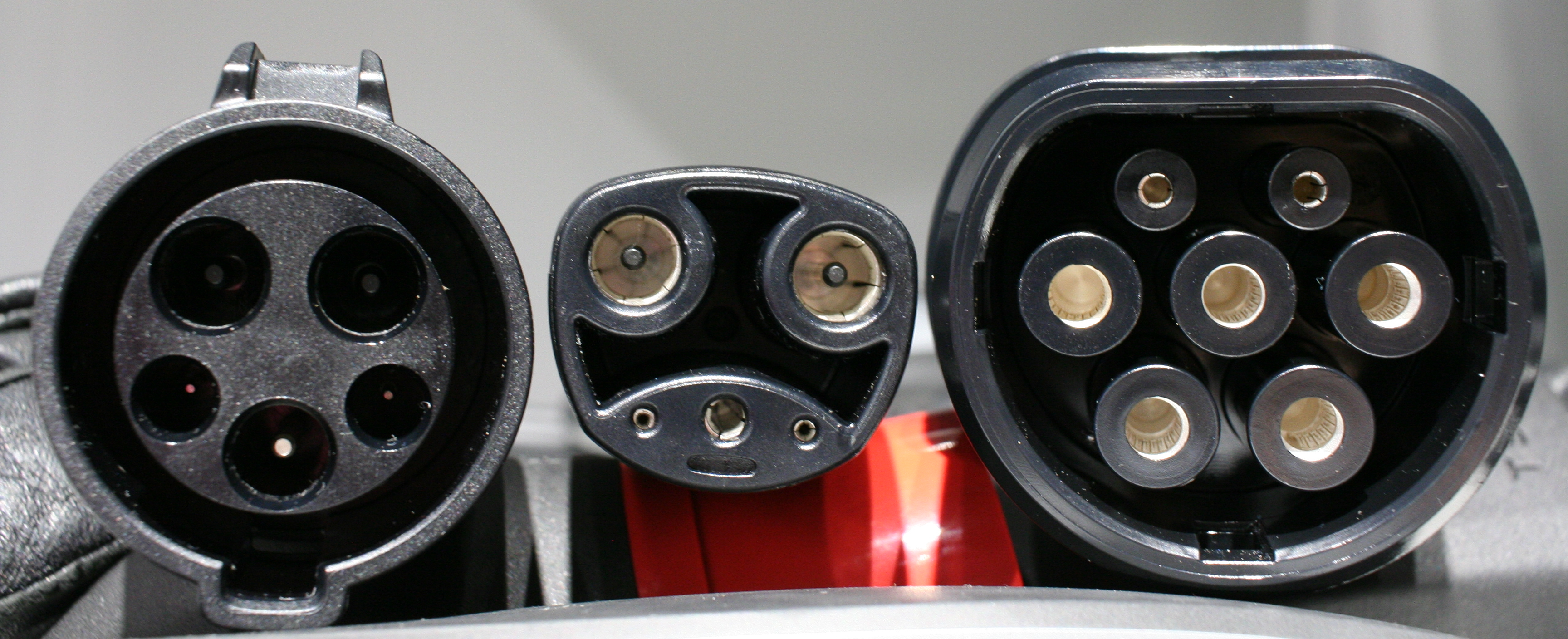 Standardised SAE J1772 inlet (used in North America; left); proprietary Tesla02 outlet (used in North America; centre). Tesla IEC Type 2 connector female outlet (used in Europe / Rest of World; right). (This image has slightly more focus depth inside the pins).